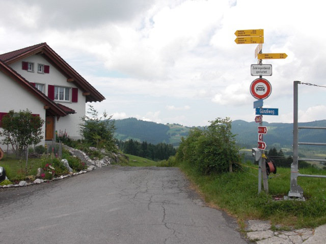 pass summit "Katzenstrick", coming from Einsiedeln